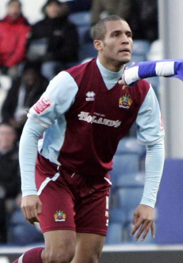 Clarke Carlisle playing for Burnley against Queens Park Rangers at Loftus Road, London on 3 January 2009